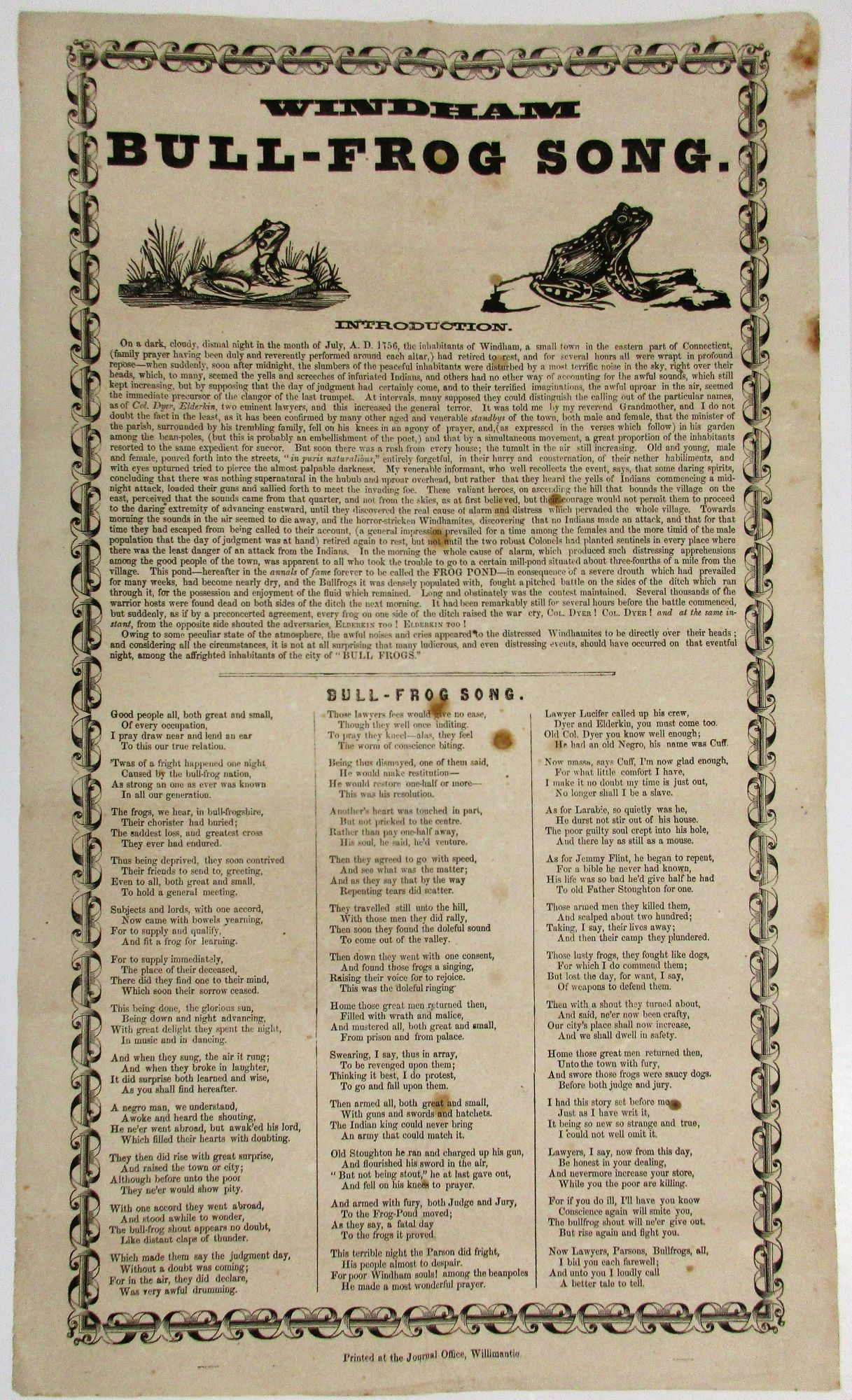 A broadside of the Windham "Bull-Frog Song" with introduction, describing the Battle of the Frogs. Illustrations include woodcuts of frogs seated on rocks and an ornamental border. Printed by the Journal Office in Willimantic, Connecticut. Date of origin is either the 1840s or 1850s. Authors of the ballad are likely Stephen and Ebenezer Tilden. Sources also name William L. Weaver as an author.